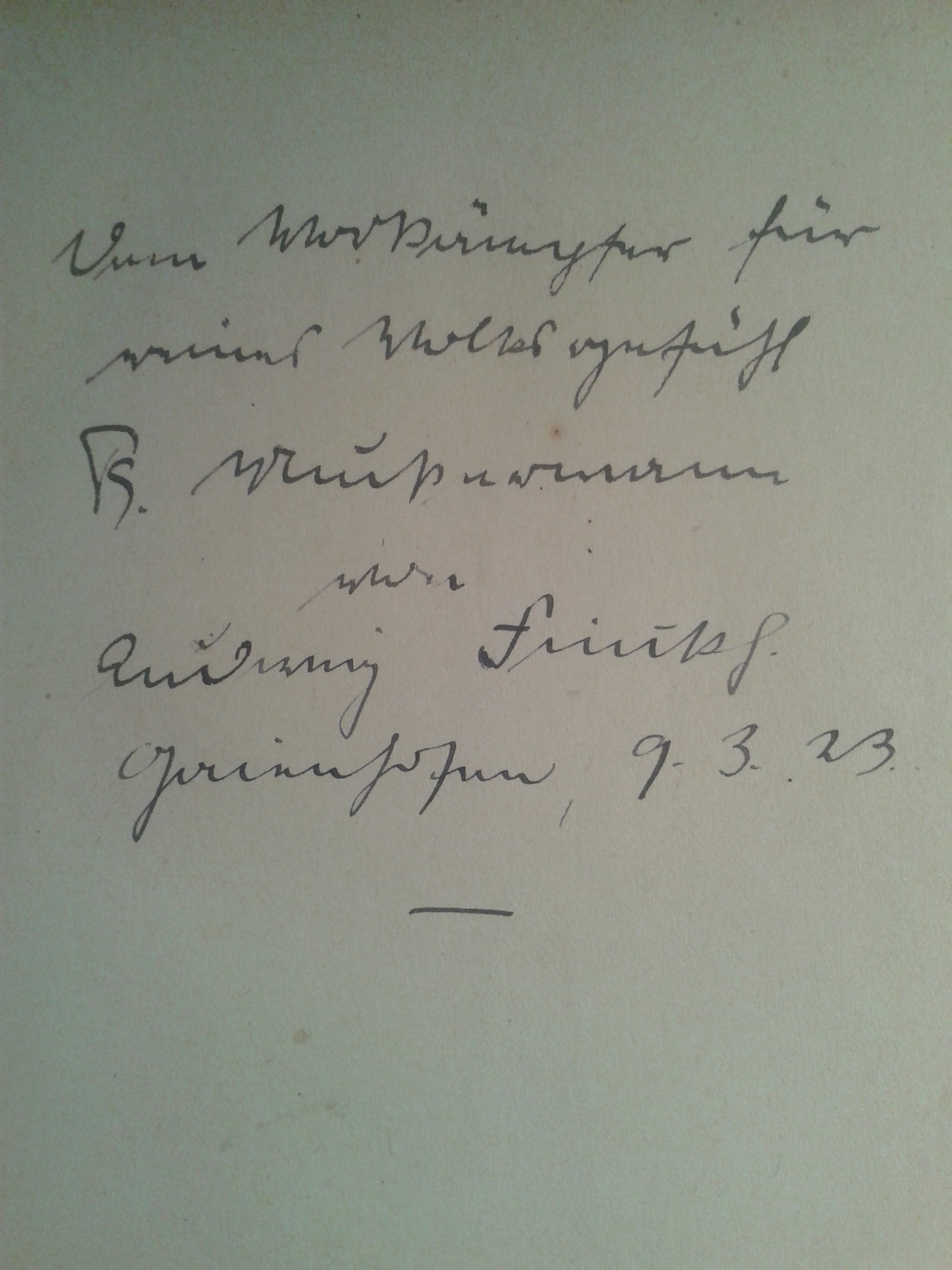 Author's dedication to Hermann Muckermann in: Ludwig Finckh: Der Ahnengarten, 1923. Collection Markus Wolter.